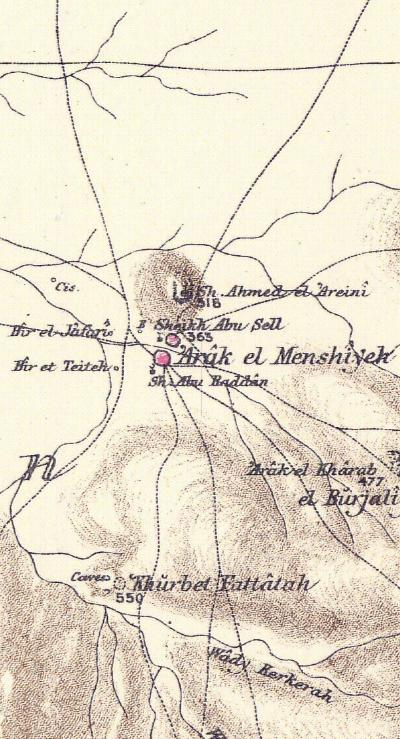 Excerpt of map sheet 20 from Conder and Kitchener's Survey of Western Palestine (1880), showing the area around Iraq al-Manshiyya and Tel Erani (modern-day Kiryat Gat).